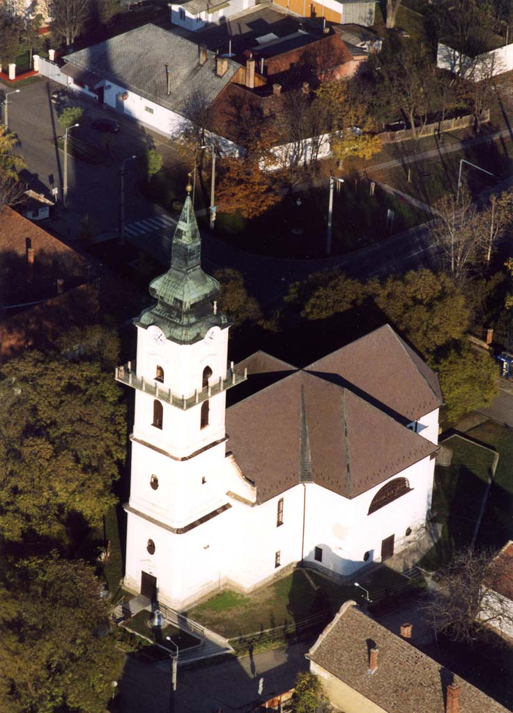 Szeghalom, Hungary, aerial photography